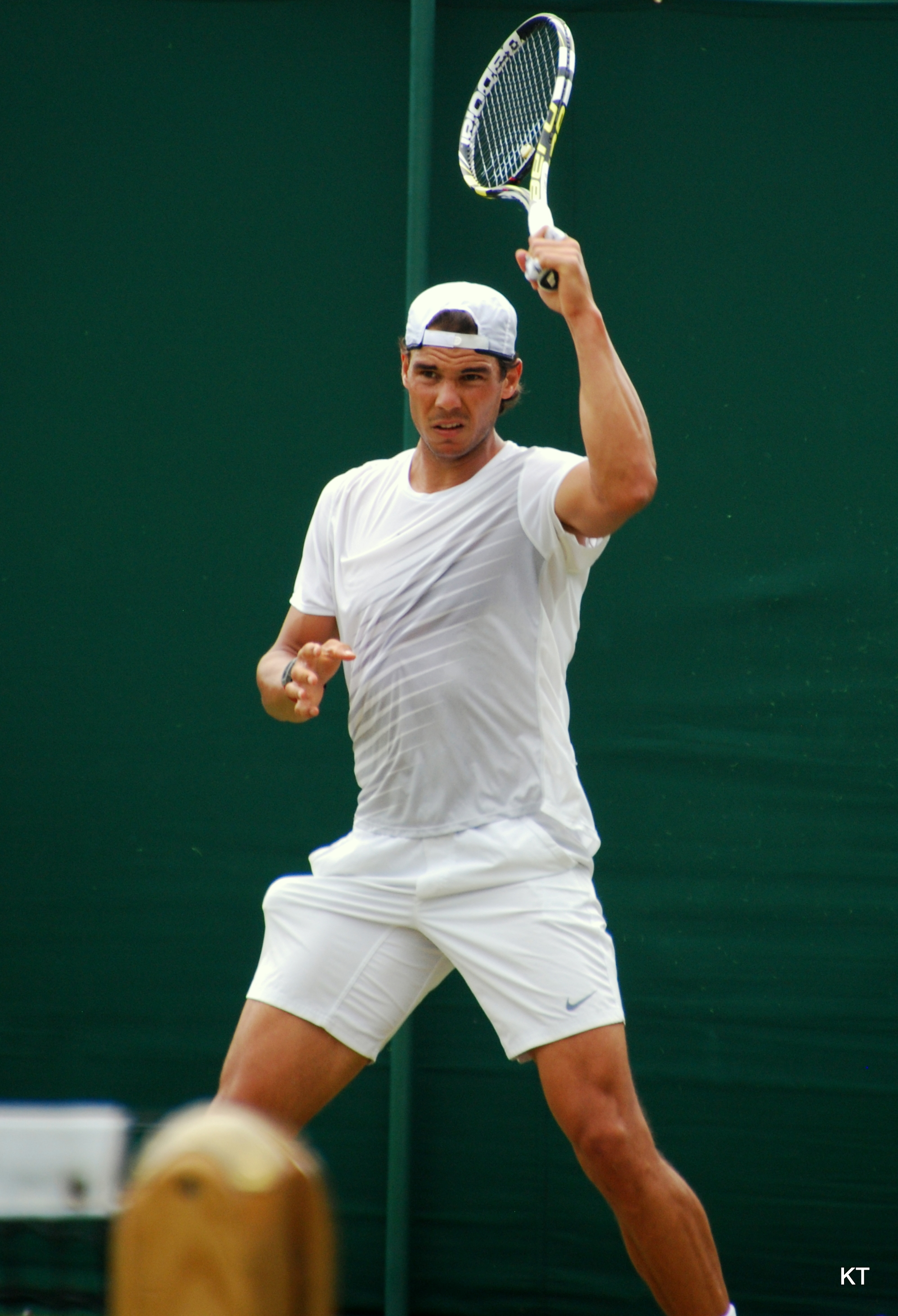 Rafael Nadal practising with Marc Lopez before his 2nd round match with Lukas Rosol. Day 4 of Wimbledon 2014.